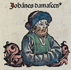 Illustration from the Nuremberg Chronicle